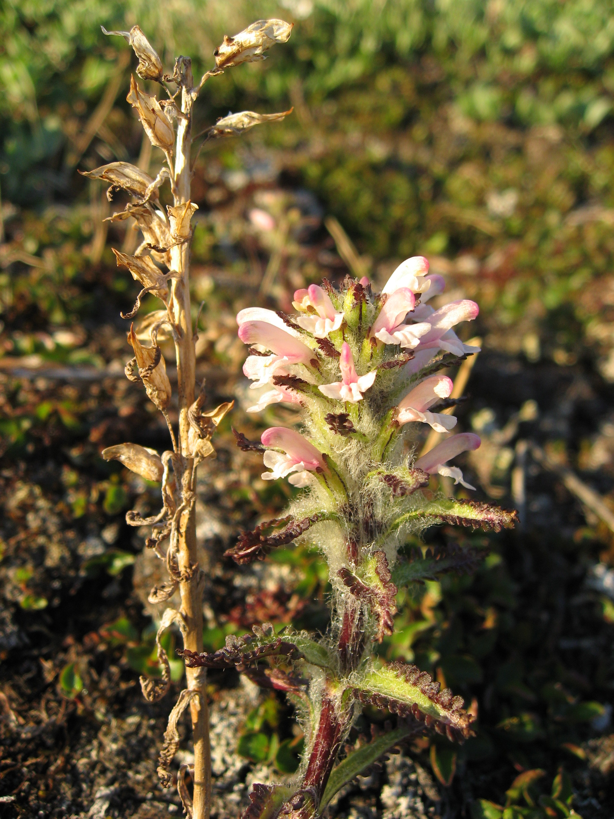 Pedicularis hirsuta (Hairy Lousewort), near Upernavik, Greenland.